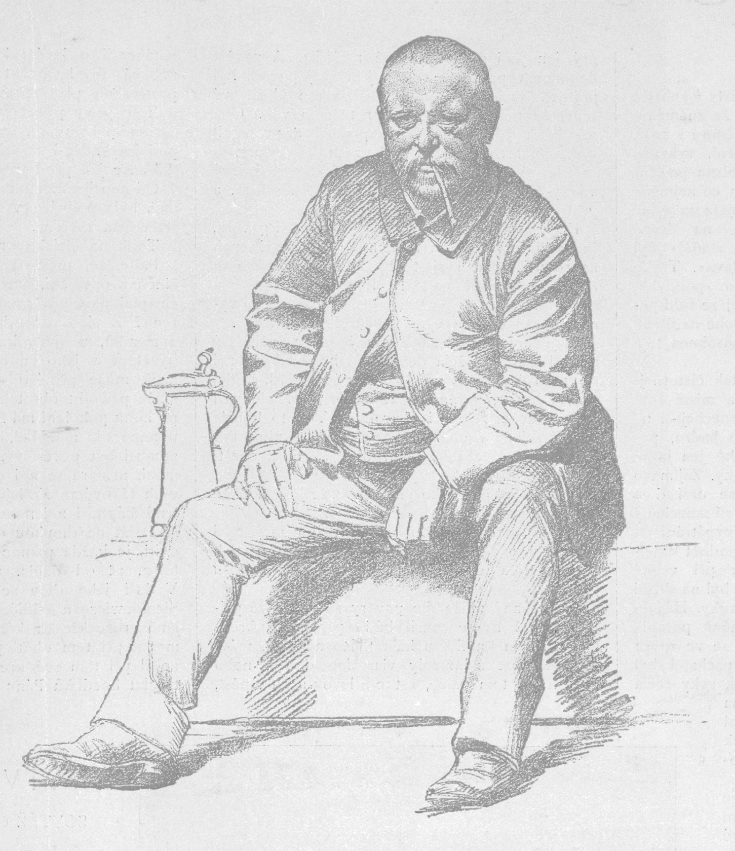 Study showing Vilém Weitenweber (1839-1901), Czech journalist and art critic. The identity of the depicted person is provided in a related article on page 216 of the same issue.